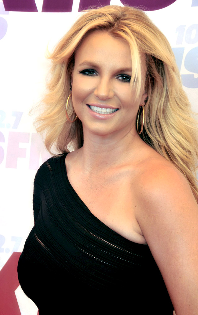 Britney Spears, Carson, California on May 11, 2013 - Photo by Glenn Francis of